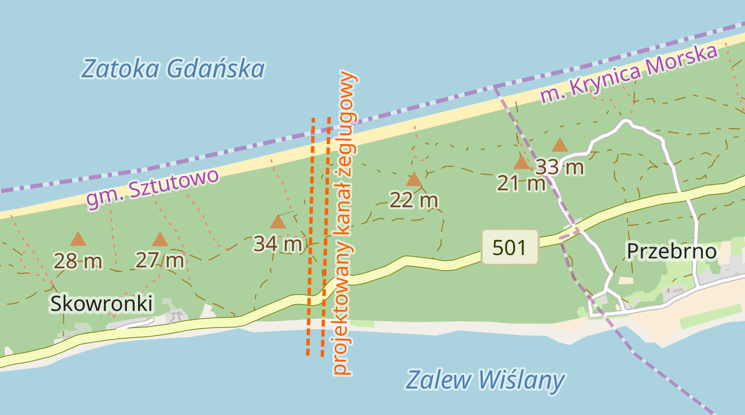 Location of a proposed Nowy Świat canal connecting Gdańsk Bay and Vistula Lagoon across Vistula Spit. Location of a proposed Nowy Świat canal connecting Gdańsk Bay and Vistula Lagoon across Vistula Spit.This map of western part of Vistula Spit was created from OpenStreetMap project data, collected by the community. This map may be incomplete, and may contain errors. Don't rely solely on it for navigation.